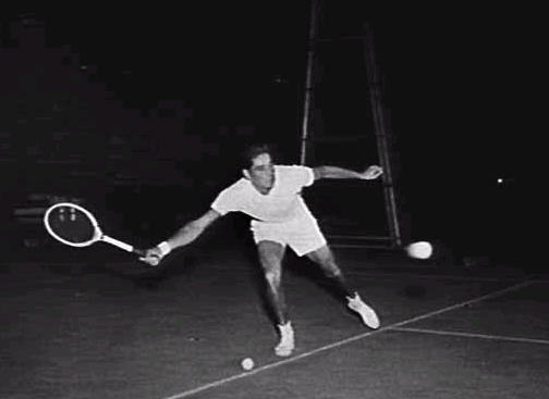 American tennis player Pancho Gonzales in a pre-1955 photo taken in Australia, so public domain